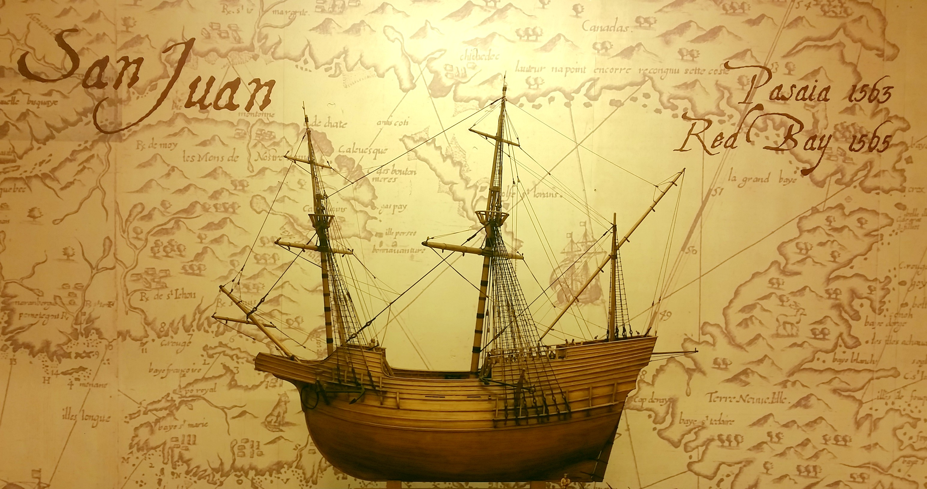 Model of the San Juan whaling ship in the Factoria Albaola. Аҧсшәа: Maqueta del barco ballenero San Juan en la Factoria Albaola.